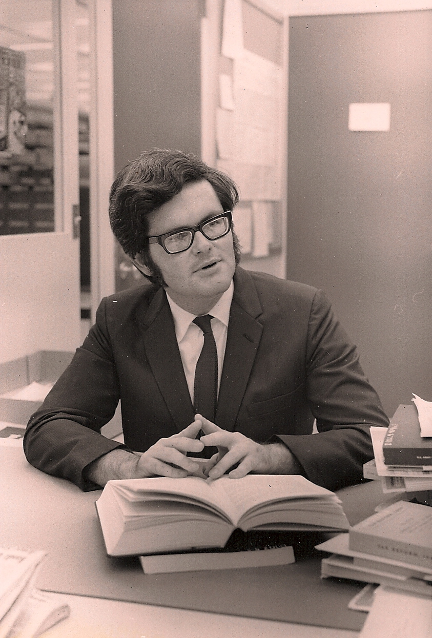 Newt Gingrich as a young history professor